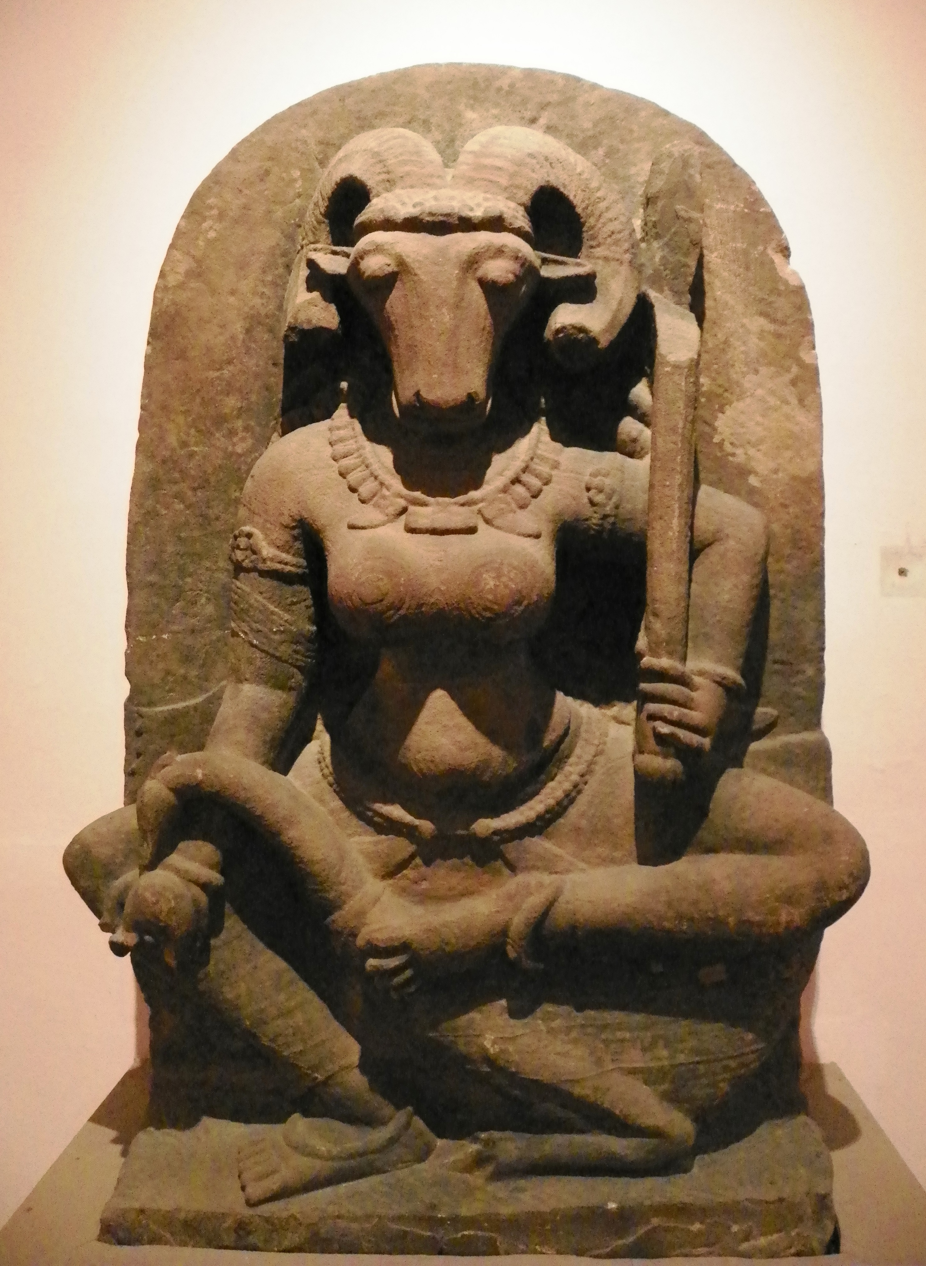 Yogini Vrishanana (buffalo headed goddess) from Lokhari village, U.P. (INDIA) — 4.5 ft, nearly 400 kgs sandstone, 10-11 century A.D., National Museum of Delhi.Description in museum says:Yogini VrishananaPratihara, 10th-11th cent. A.D.Lokhari, District Basti, Uttar PradeshHt. 132.0 cm., Wd. 77.0, Dep. 27.0 cmStone, Acc. No. M. 13/20